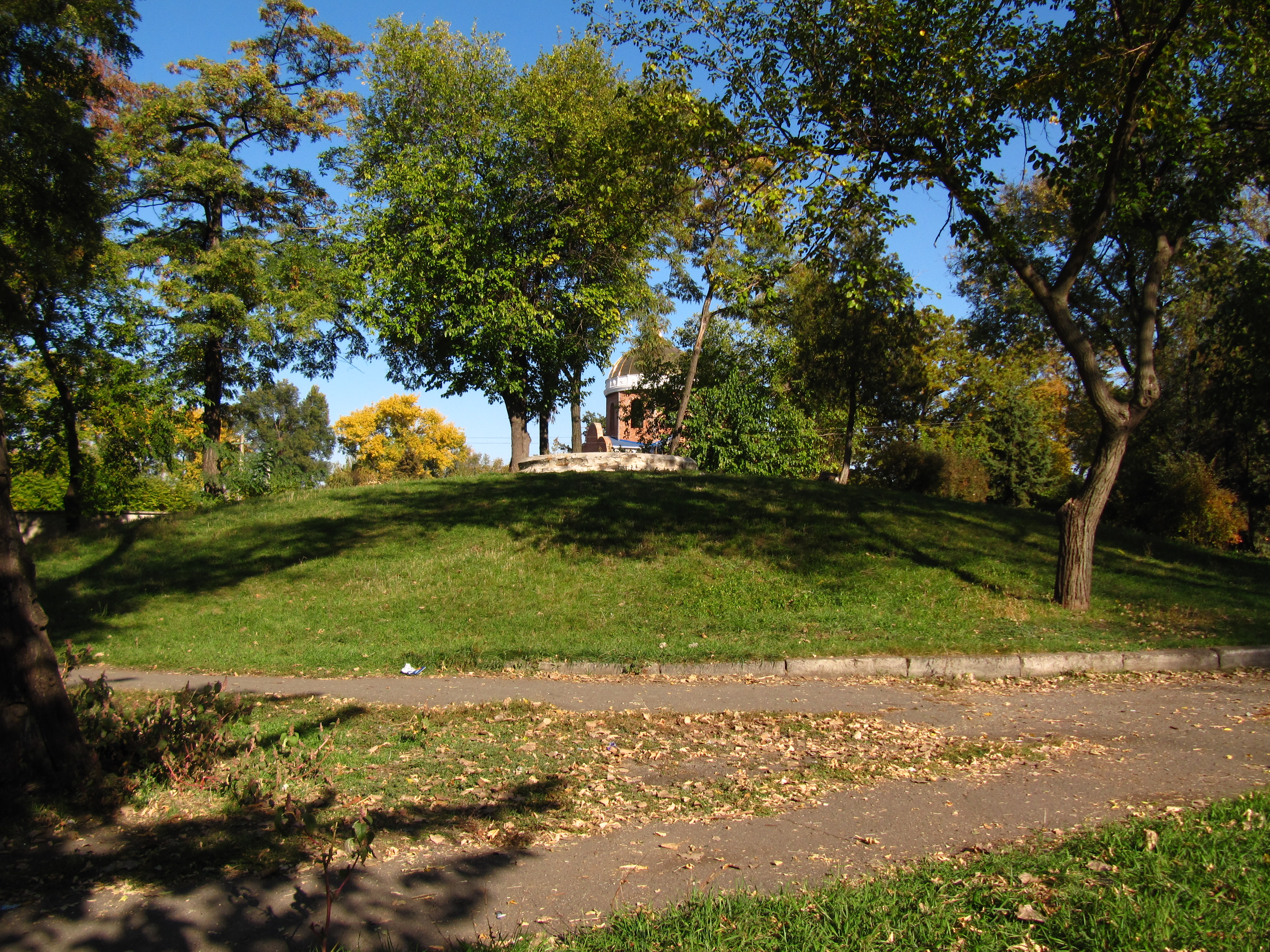 Scythian burial mound "Yaruschana Mohyla", Kryvyi Rih, Ukraine.